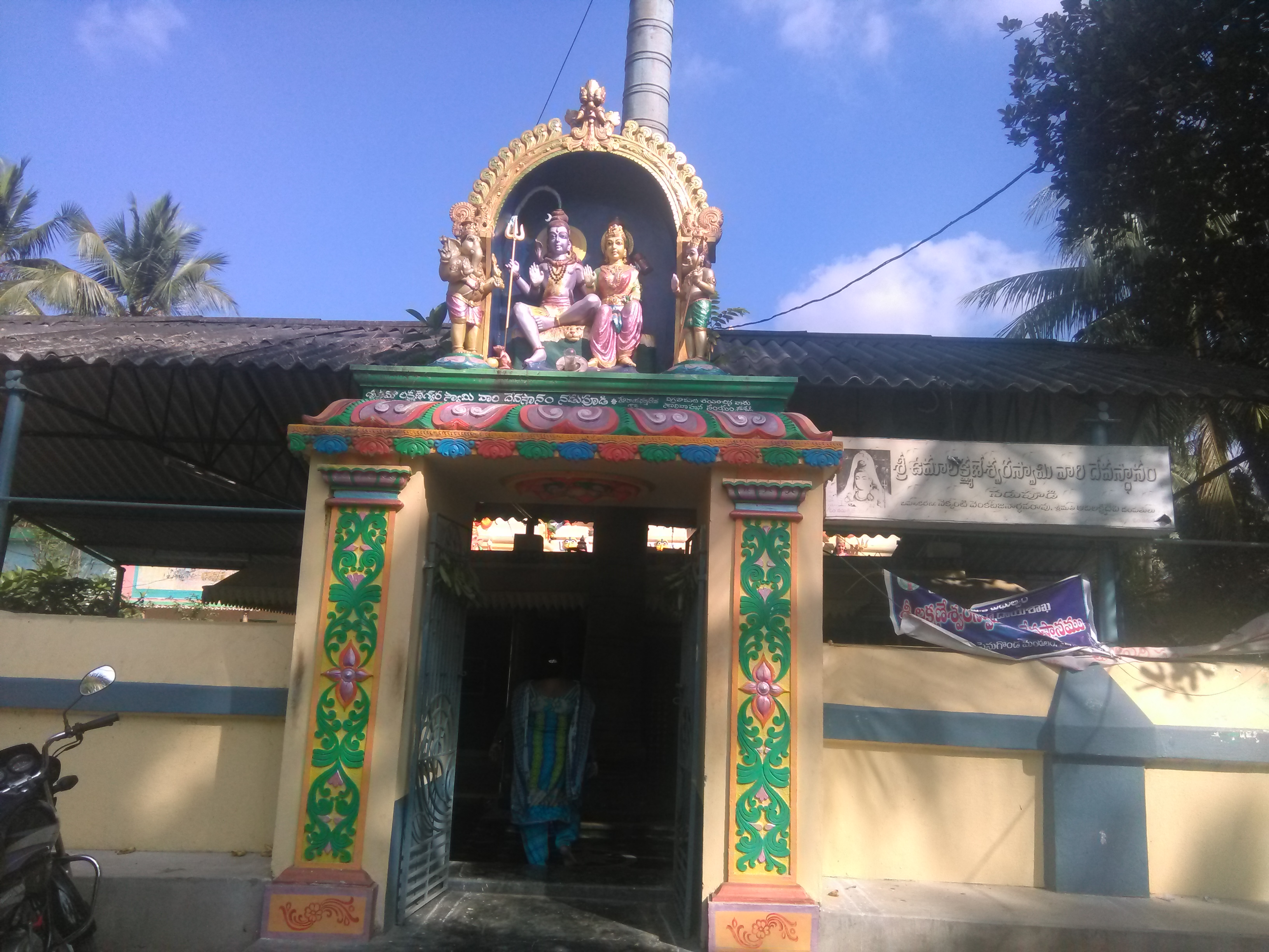 A.P Village Nadipoodi Siva Temple